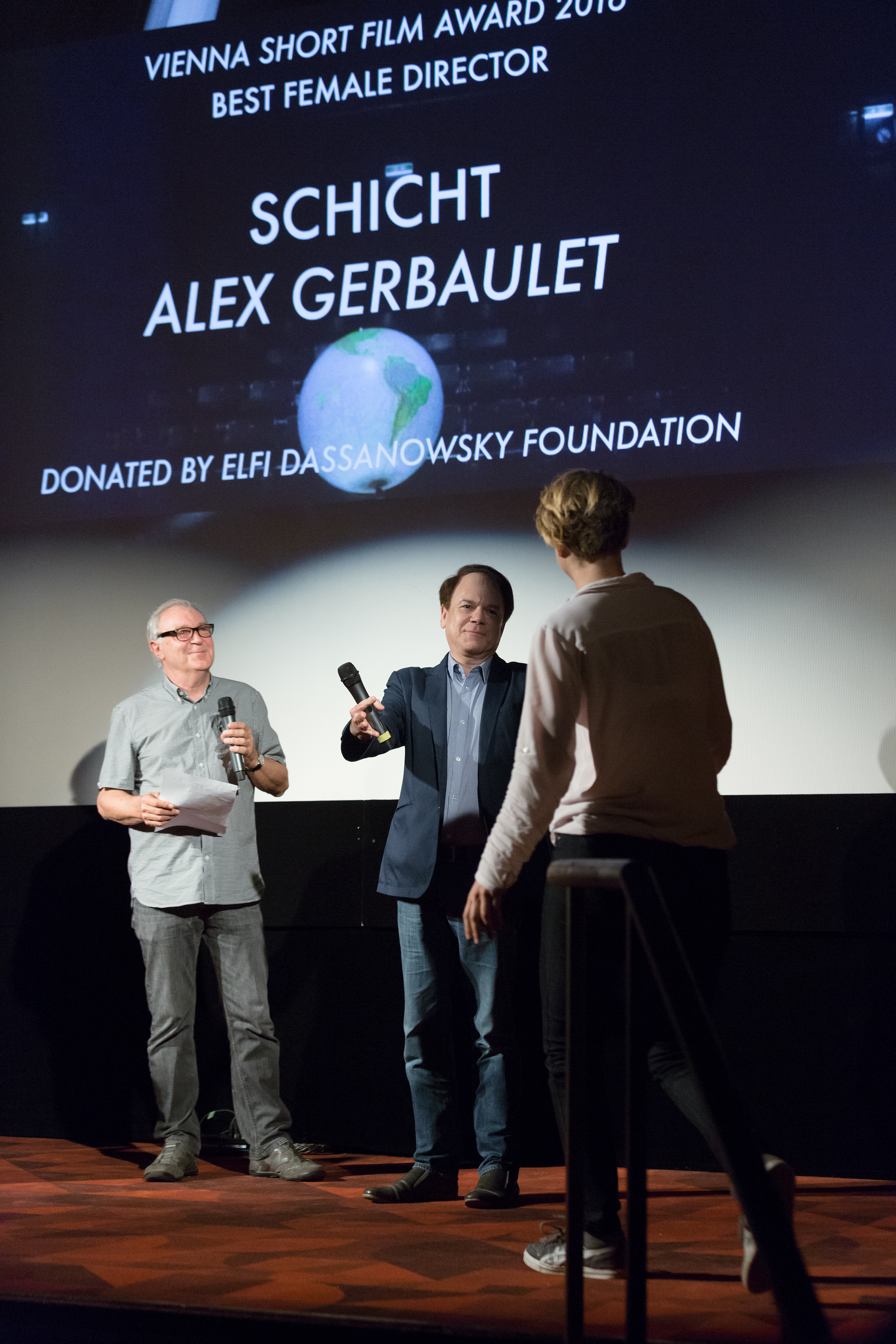 Alex Gerbaulet with Robert von Dassanowsky and presenter Stuart Freeman at the award ceremony of the Vienna Independent Shorts 2016 (Metro-Kino, Vienna, Austria).